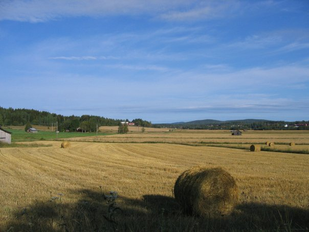 The road over the fields from Fly to the red barn in Daglysa, in Trönö.